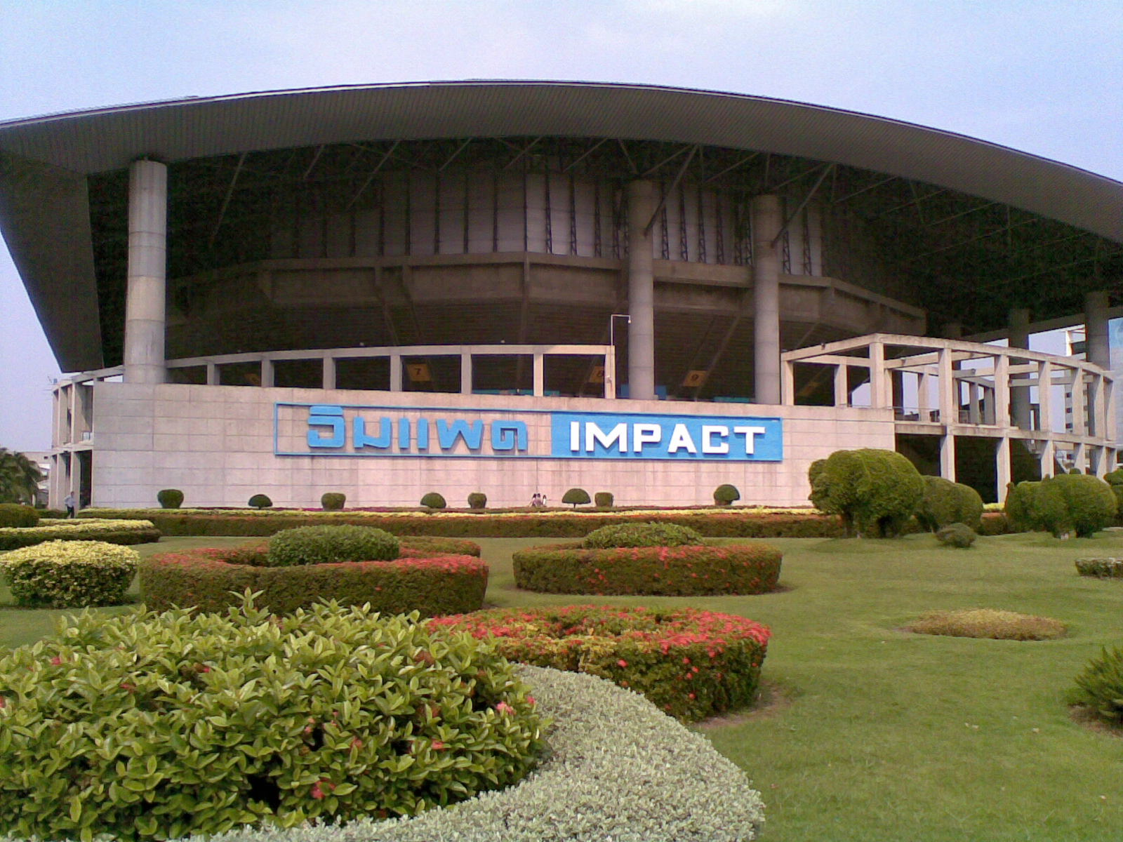 IMPACT Arena taken photo in front IMPACT Exhibition and Convention Center, Muang Thong Thani, Nonthaburi, Thailand